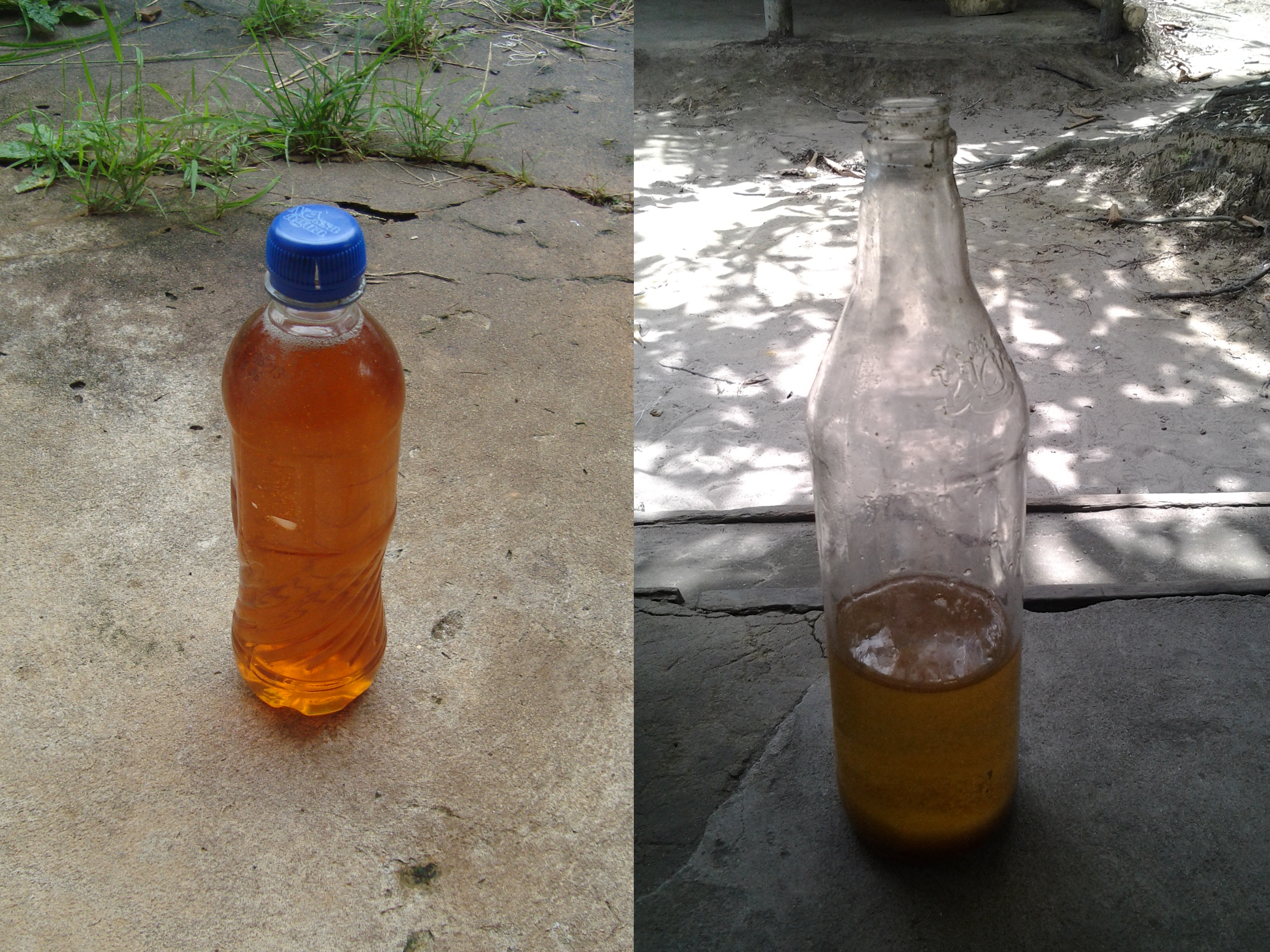 Derivative from File:Crabwood oil unfiltered.JPG and File:Crabwood oil.jpg